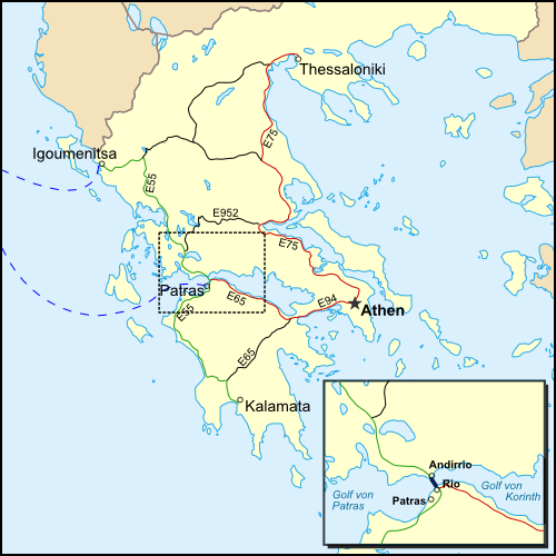 Rio-Antirio bridge situation map in Greece. German Version